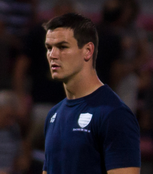 Jonathan Sexton with the jersey of Racing Metro 92 in Toulouse